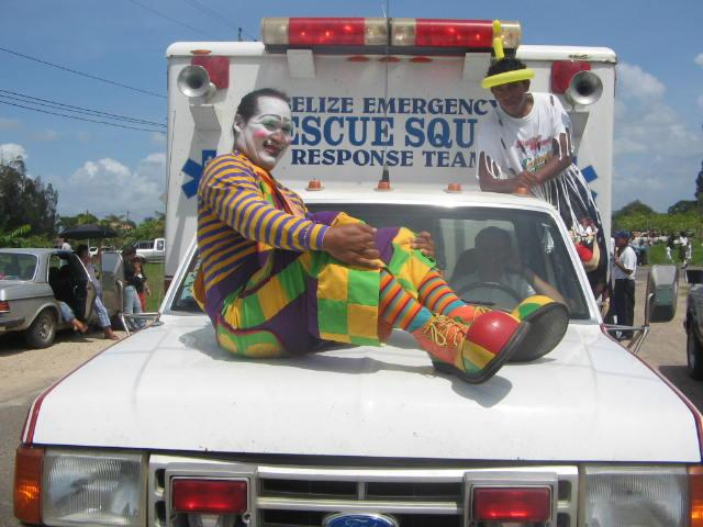 Javier Canul as Ozzy The Clown on the Ambulance